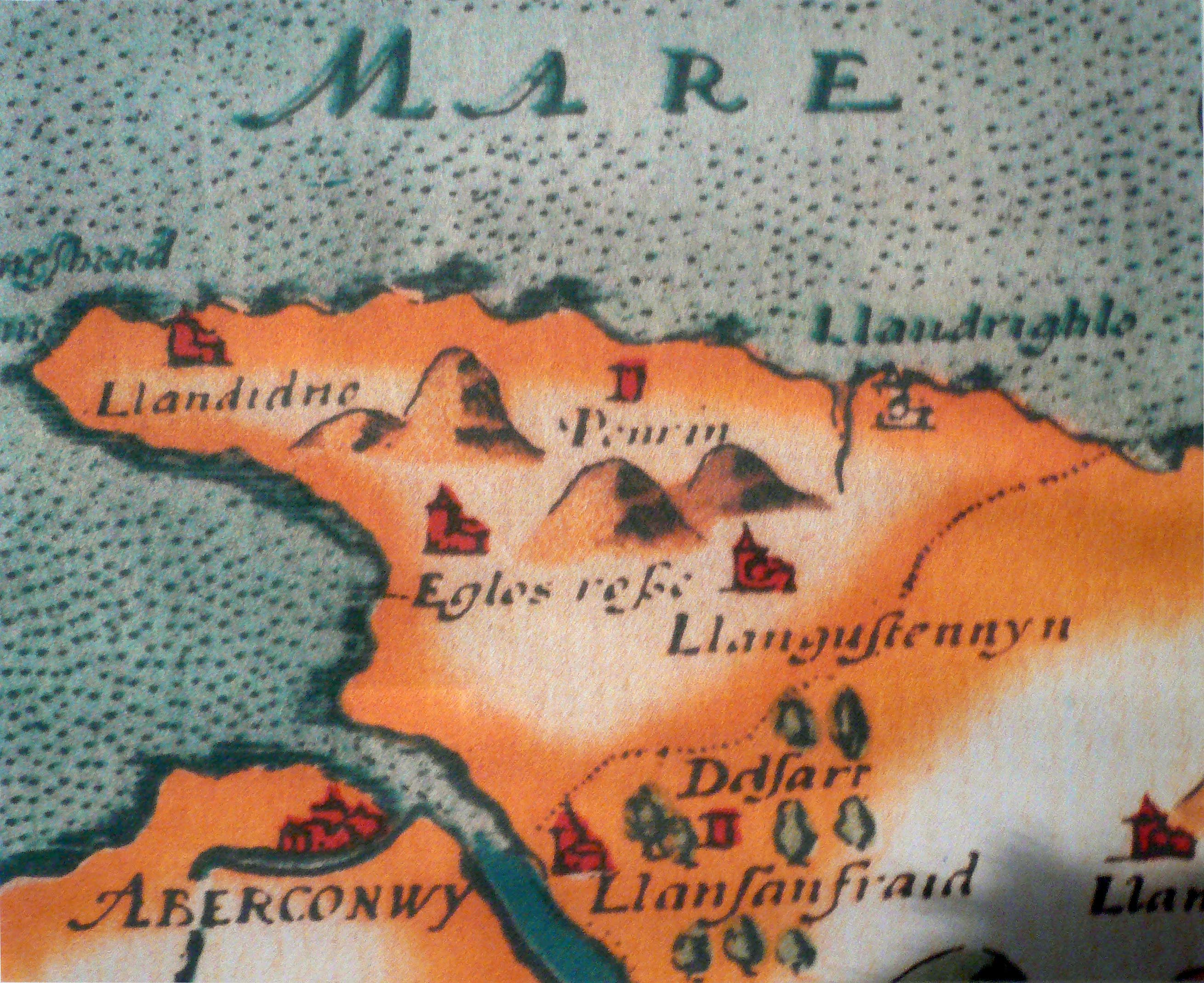 An old map depicting Conwy, Llandudno and Penrhyn. The area has a rich and colourful history: According to legend, in 1170 Prince Madog ab Owain Gwynedd and his brother, Riryd, sailed from Aber Cerrig Gwynion (now Rhos-on-Sea) in two ships, the Gorn Gwynant and the Pedr Sant. They sailed west and landed in what is now Alabama in the USA. Prince Madog then returned to Wales with great tales of his adventures and persuaded others to return to America with him. They sailed from Lundy Island in 1171 and were never heard of again. On 14 April 1587, printing material for Catholic literature was found in a cave on the Little Orme, where it had been used by the recusant Robert Pugh (squire of Penrhyn Hall) and his Chaplain Father William Davies to print Y Drych Cristianogawl (The Christian Mirror), allegedly the first book to be printed in Wales*. They had taken refuge there during the persecution of Catholics instigated by Queen Elizabeth I in May 1586. According to alternative sources, in 1546, Sir John Price (John Prys of Brecon) published the first book in the Welsh language, his collection of basic religious texts was entitled "Yn Llyvyr Hwnn" (In This Book). On Bryn Euryn can be found the remains of a mansion, commonly known as Llys Euryn or Plas Bryneuryn (in English, The Palace of the Golden Hill). Llys has a subtlety different meaning to plas, or palace, and would have been applied to the fortified court of a local ruler in the early medieval (Dark Age) period, so could there be an older building below the present one? Maybe, but there are no signs of Camelot ever being built here!